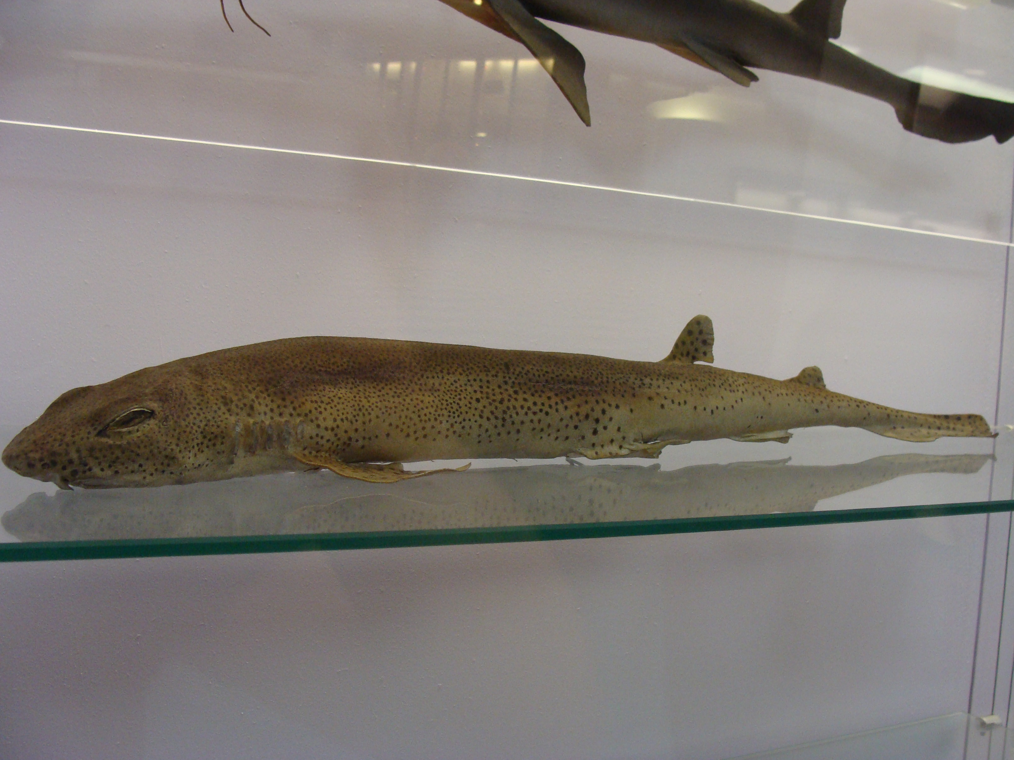 Scyliorhinus canicula (Small-spotted catshark) in the Natural History Museum of London